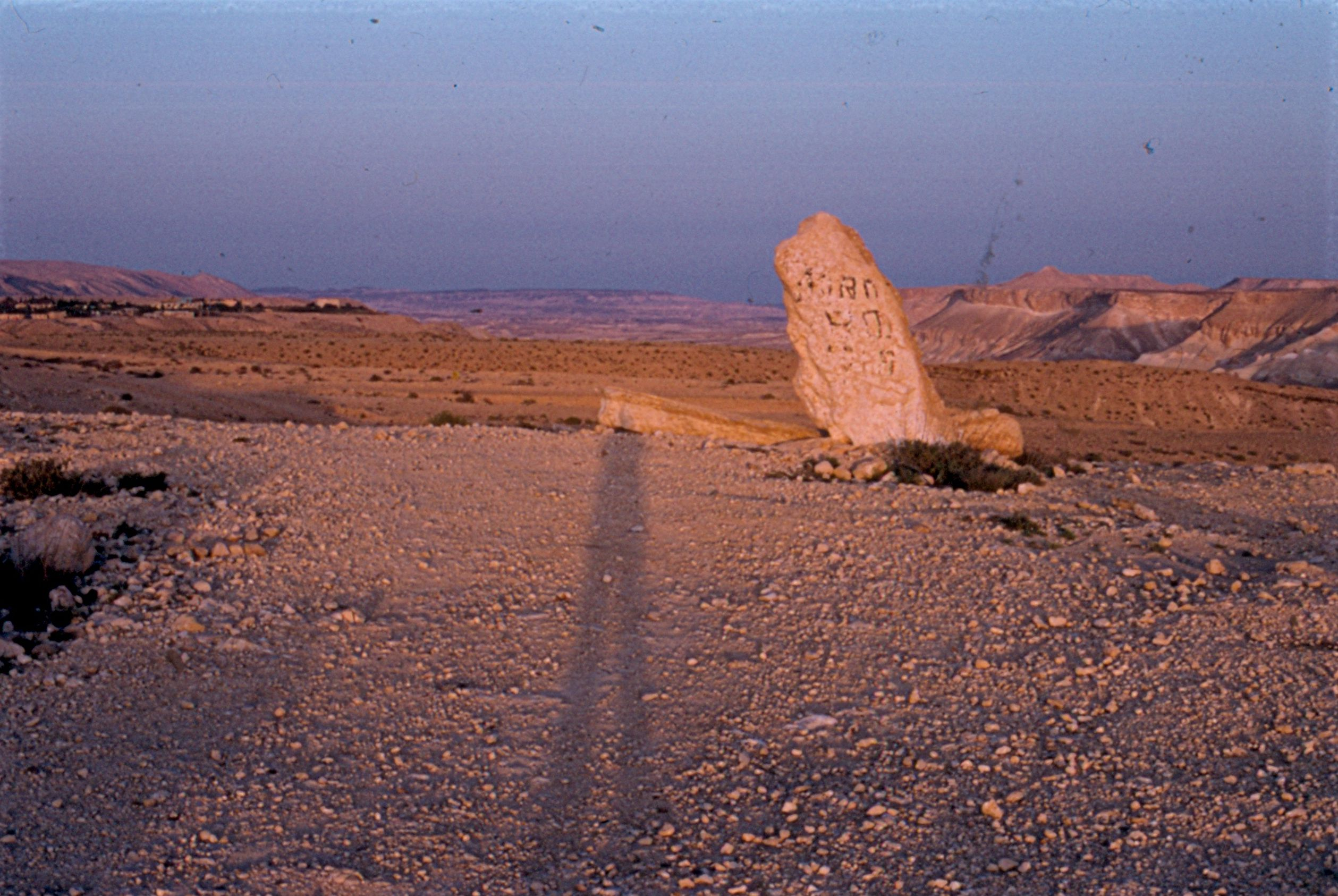 Border stone between Israel and Sinai